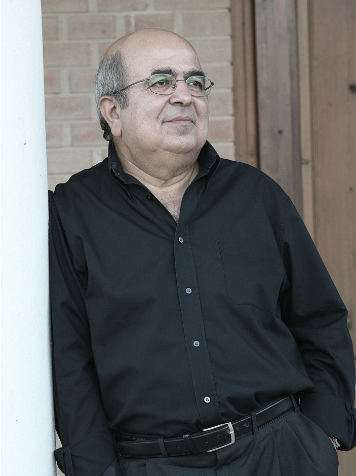 Portrait of Mariano Garau, contemporary composer